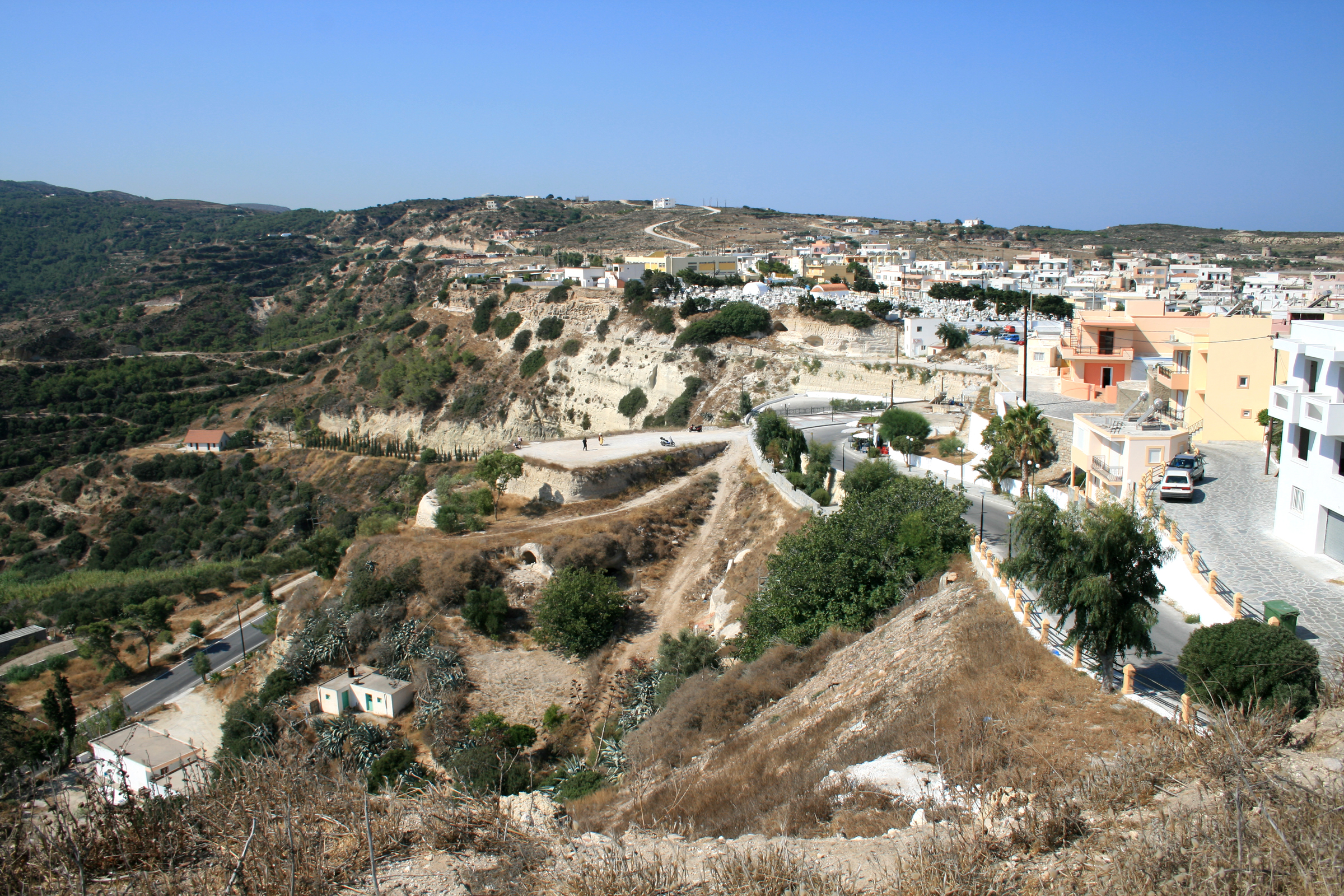 View on town Kefalos on Kos island (Greece)